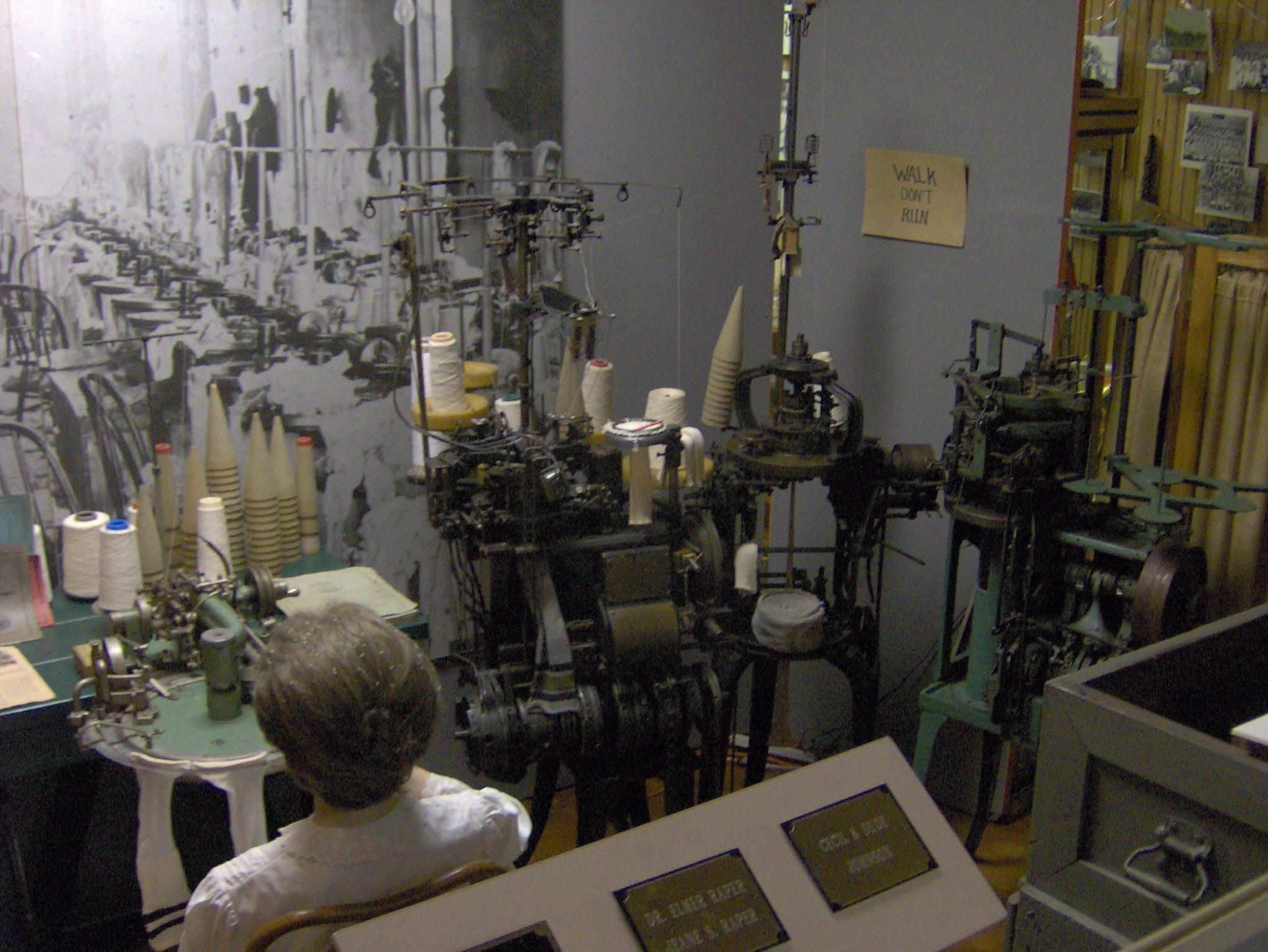 A display at the Englewood Textile Museum in Englewood, Tennessee, in the southeastern United States.